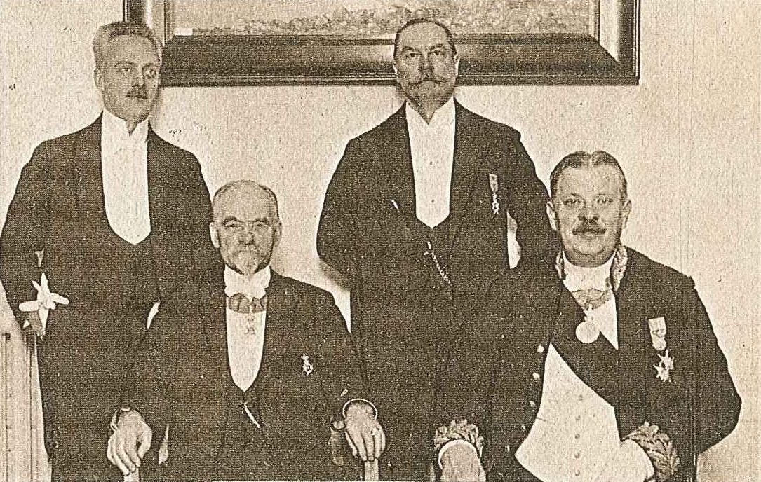 A group of official representatives of the Swedish province of Dalarna (Dalecarlia) assembled in Stockholm for the baptism of prince Carl Johan, Duke of Dalarna in 1916. From left to right: Ernst Lyberg (1874-1952), lawyer, member of parliament and later Minister for Finance; Daniel Persson i Tällberg (1850-1918), deputy speaker of the parliament's second chamber; "intendent Carlsson" (no details known) and Fredrik Holmquist (1857-1922), County Governor of Kopparberg County and member of parliament.